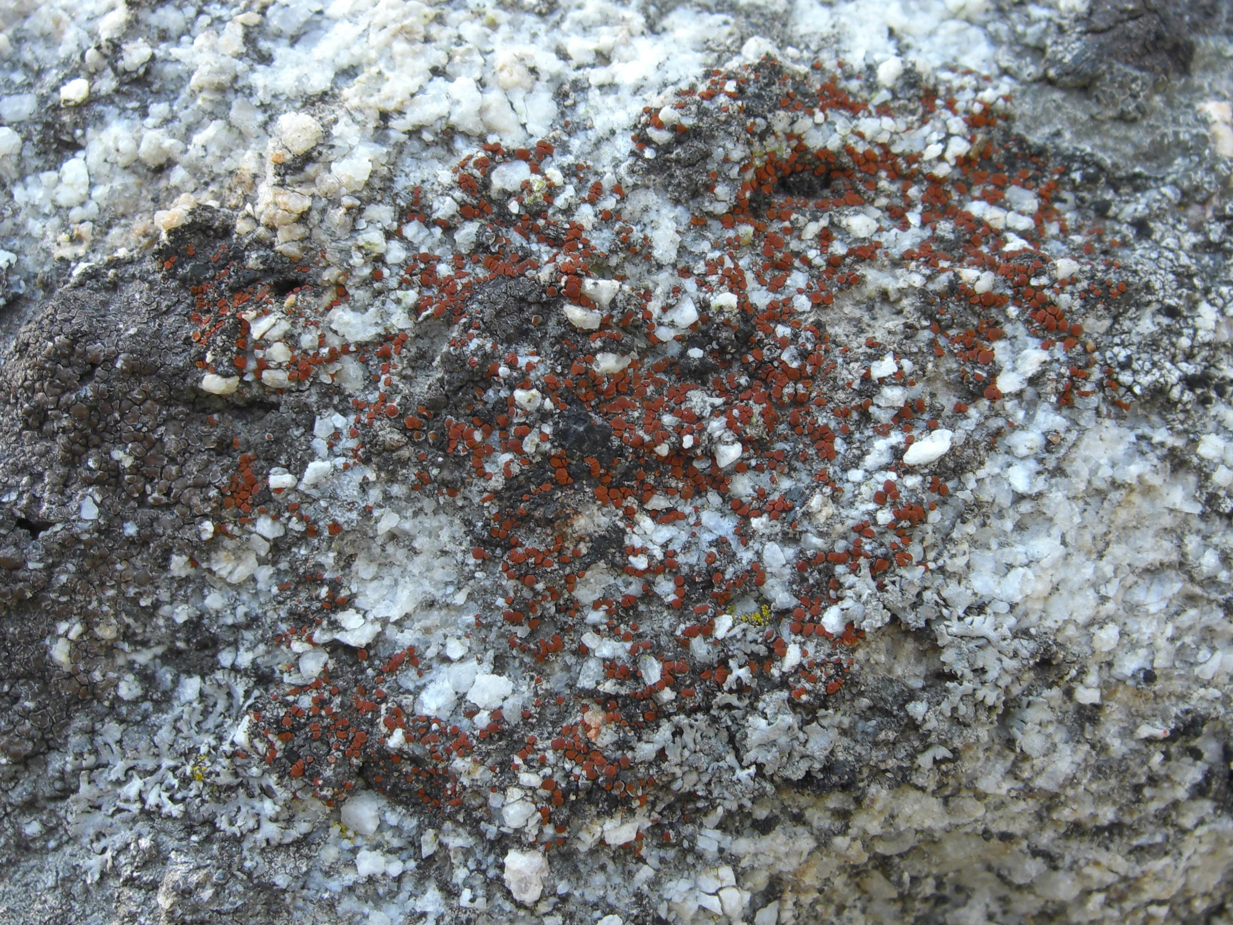 Scientific Name: Caloplaca arenaria (Pers.) Mull. Arg. Common Name: Granite Firedot Lichen Certainty: positive (notes) Location: Southern California; San Gabriel Mts; Mt Gleason Date: 20081015